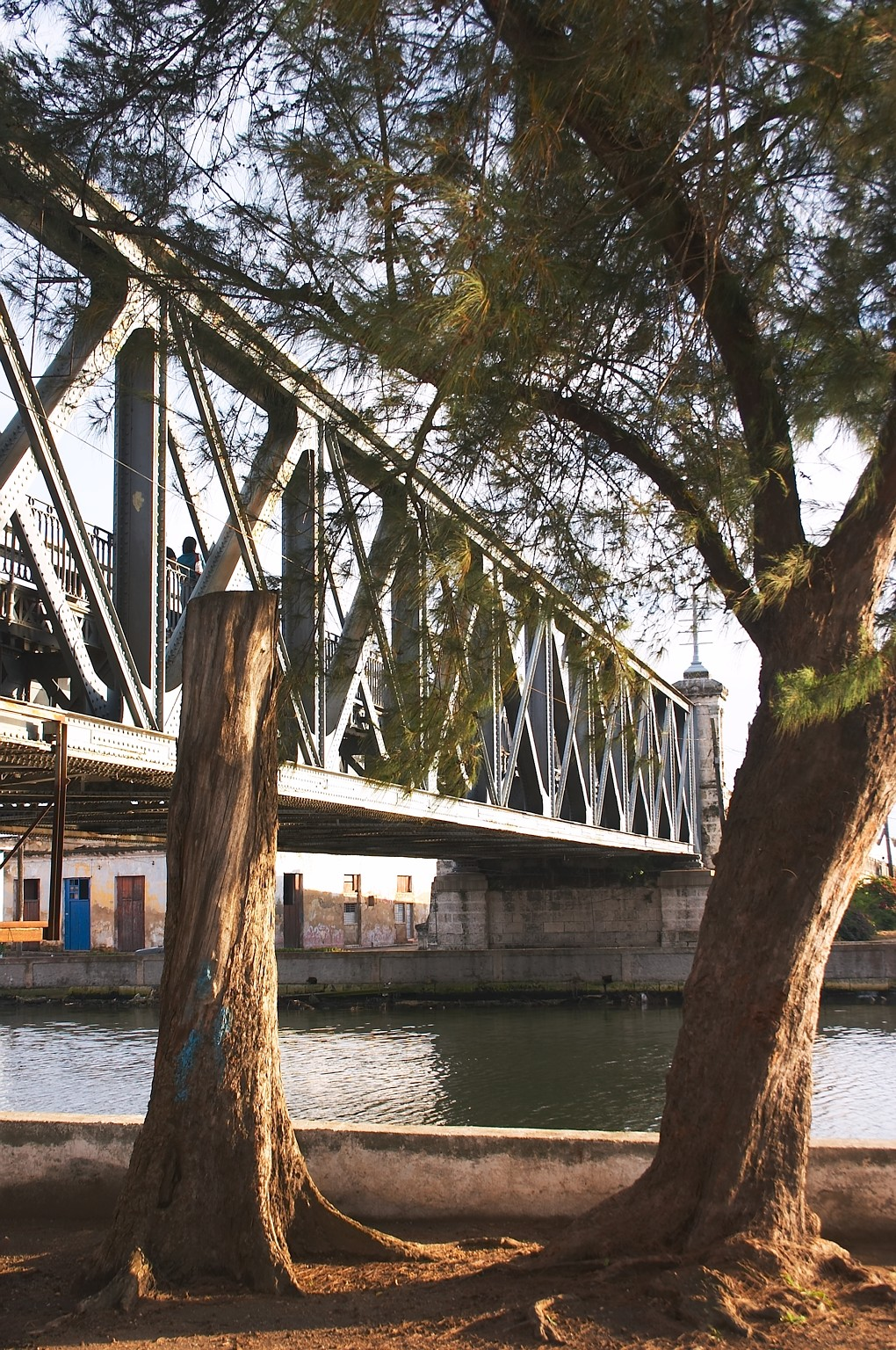 Trees near the Calixto Garcia bridge